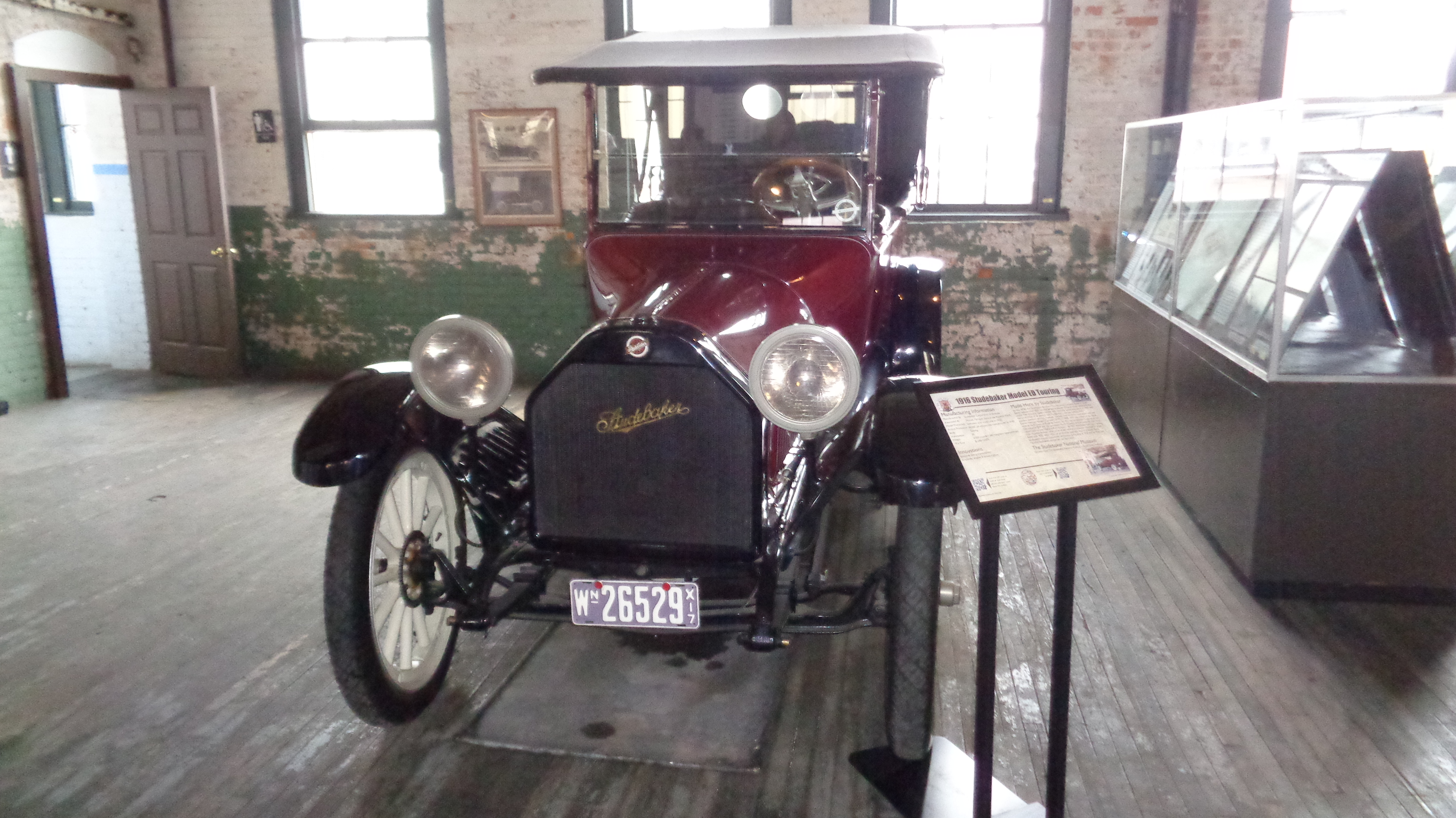 A 1916 Studebaker at the Ford Piquette Avenue Plant.